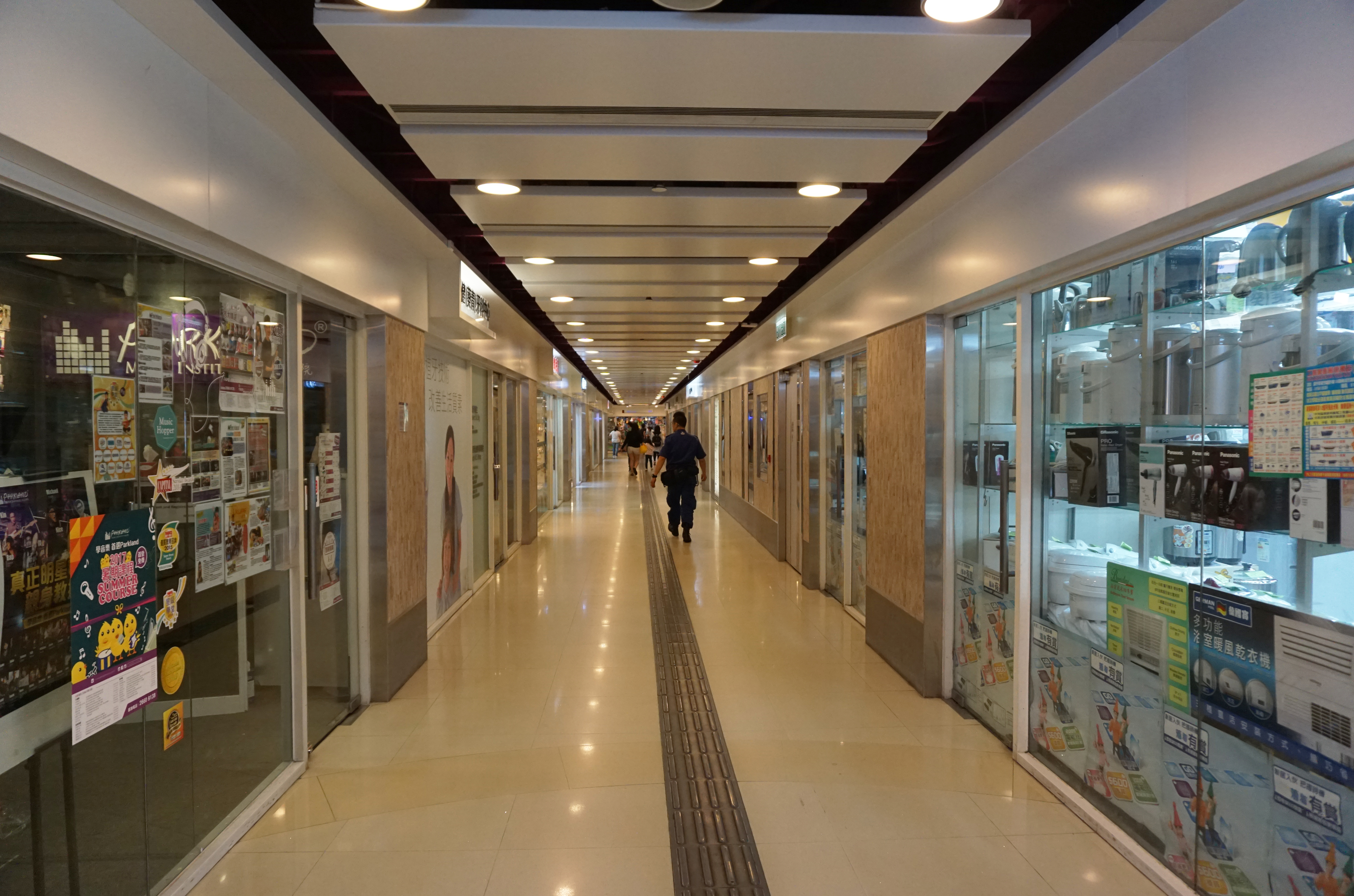 Kwai Fong Plaza in Kwai Fong, Hong Kong.